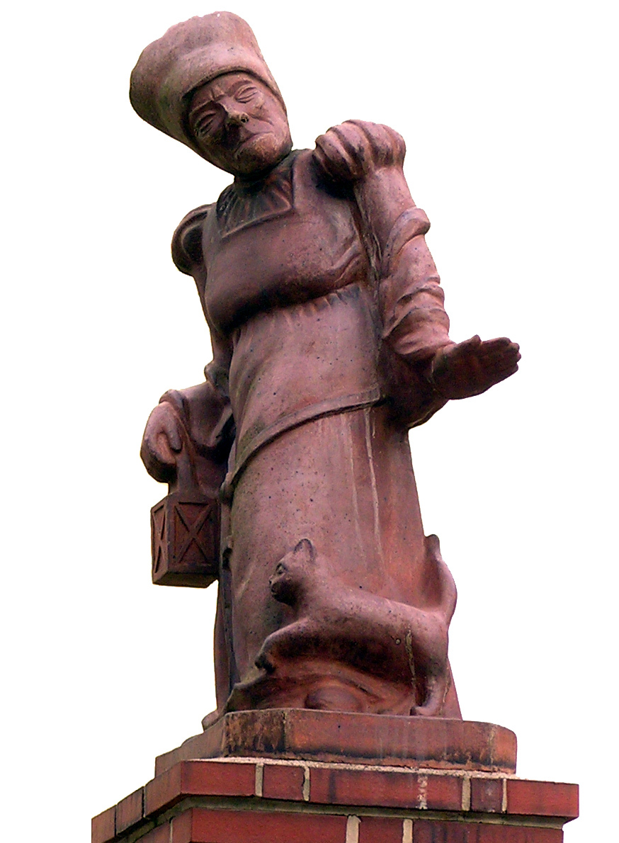 Memorial to the "Woman from Bensheim" as a fountain figure in Bensheim, Germany